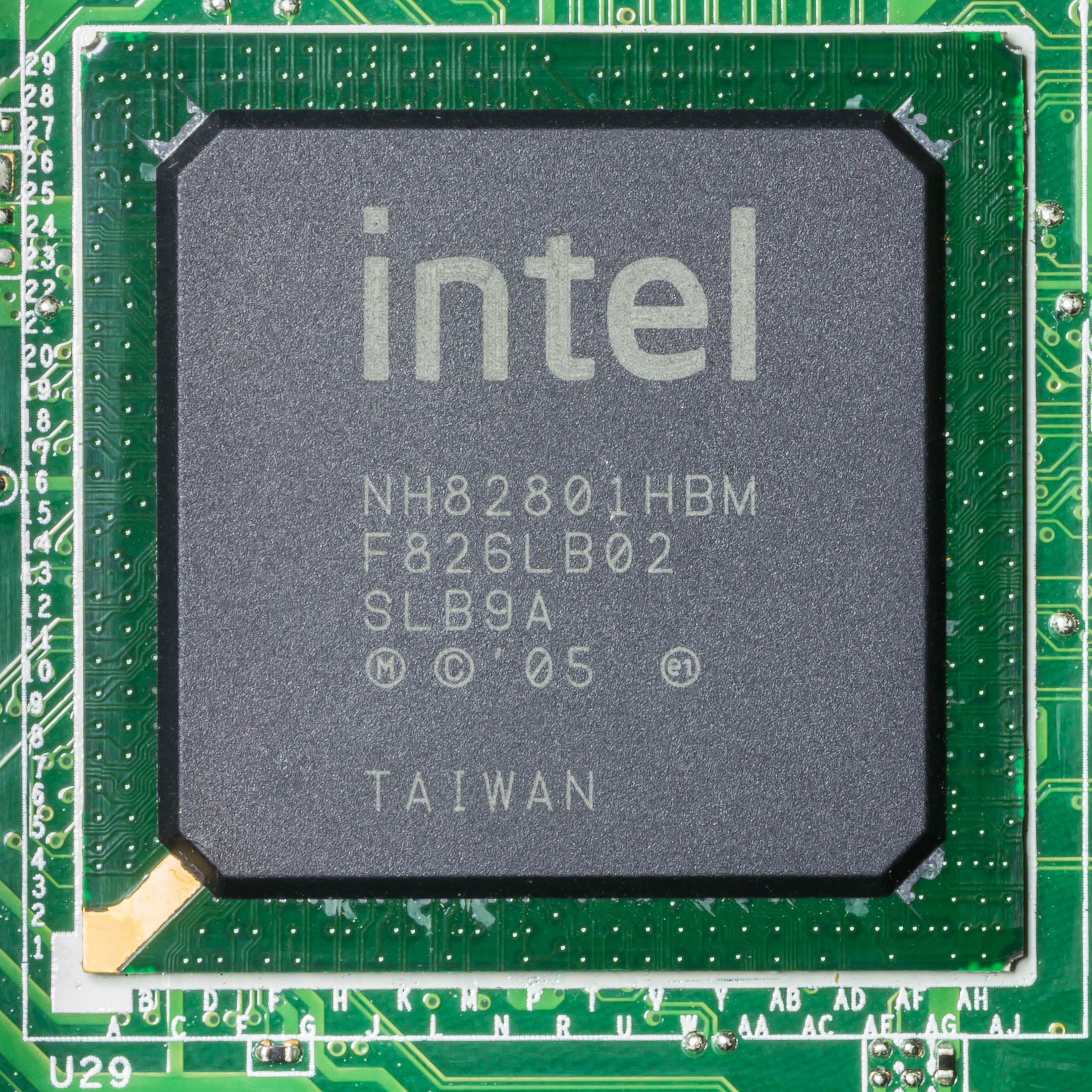 Intel NH82801HBM SLB9A Southbridge